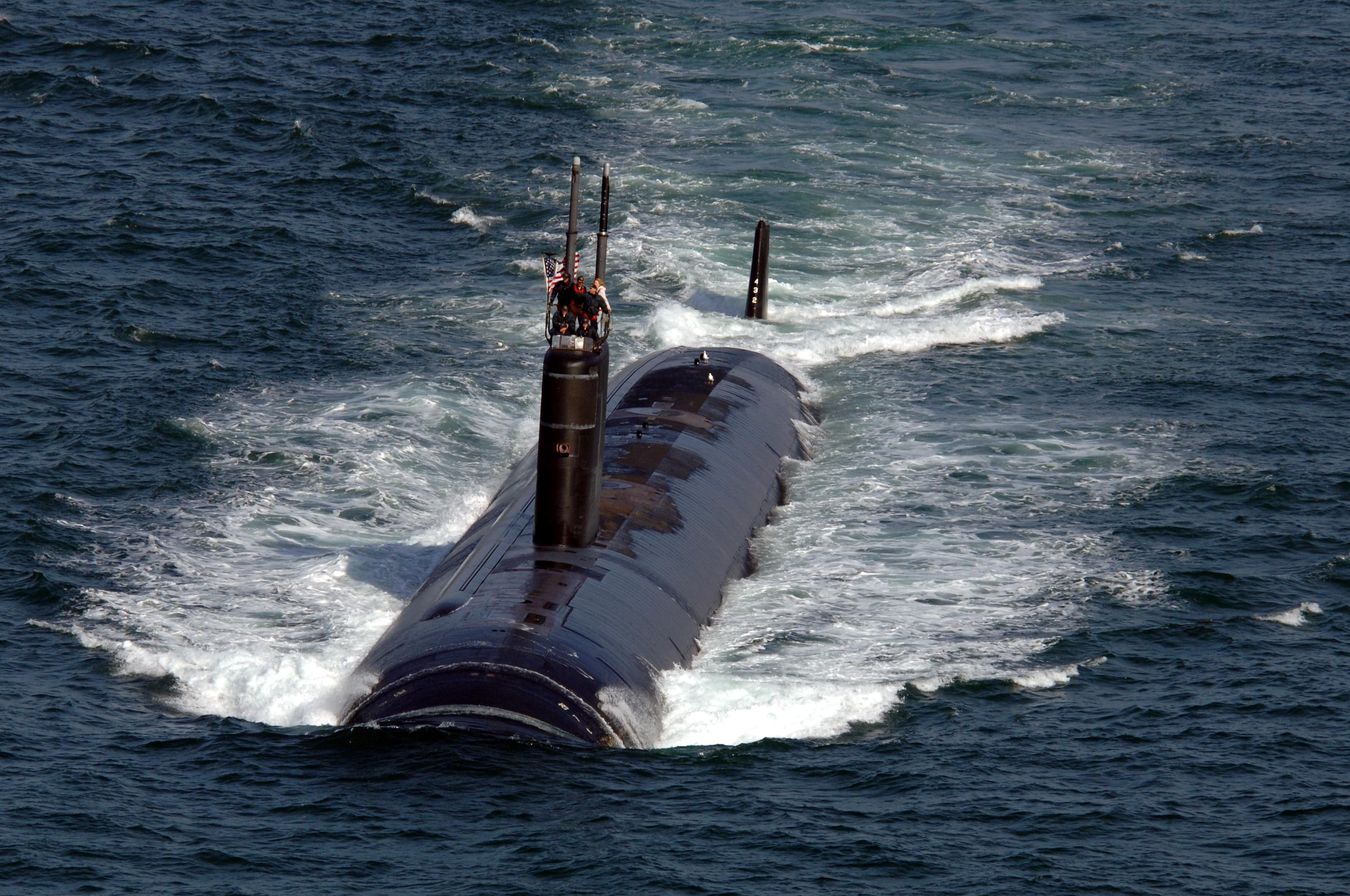 San Diego (Feb. 15, 2006) - The Los Angeles-class fast attack submarine USS Asheville (SSN 758), gets underway in preparation of conducting high-speed surface drills off the coast of Southern California. Asheville, assigned to Submarine Squadron Eleven, is home ported in Naval Base Point Loma, Calif. U.S. Navy photo by Photographer’s Mate 2nd Class Scott Taylor (RELEASED)